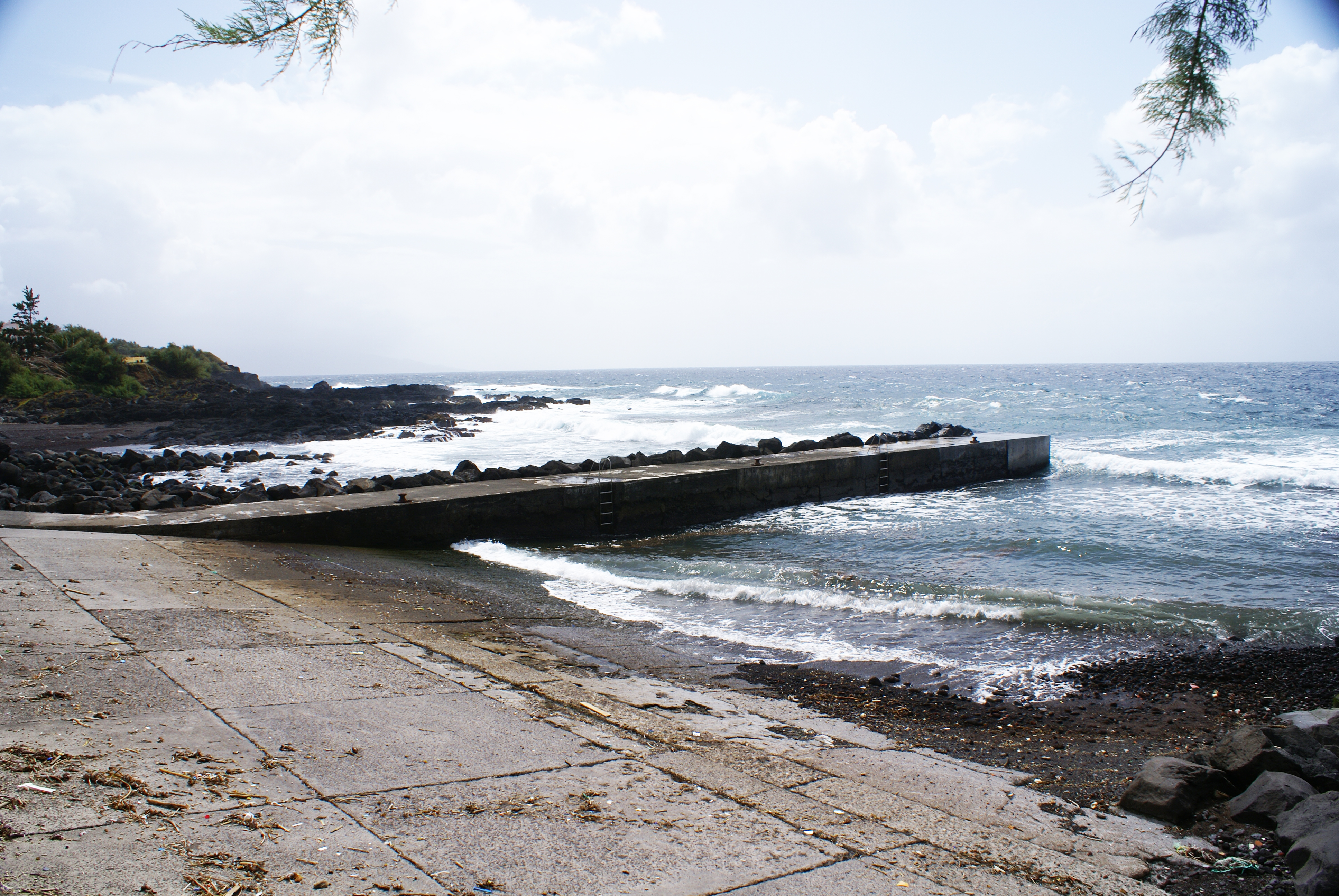 Porto piscatório da Feteira, concelho da Horta, ilha do Faial, Açores, Portugal